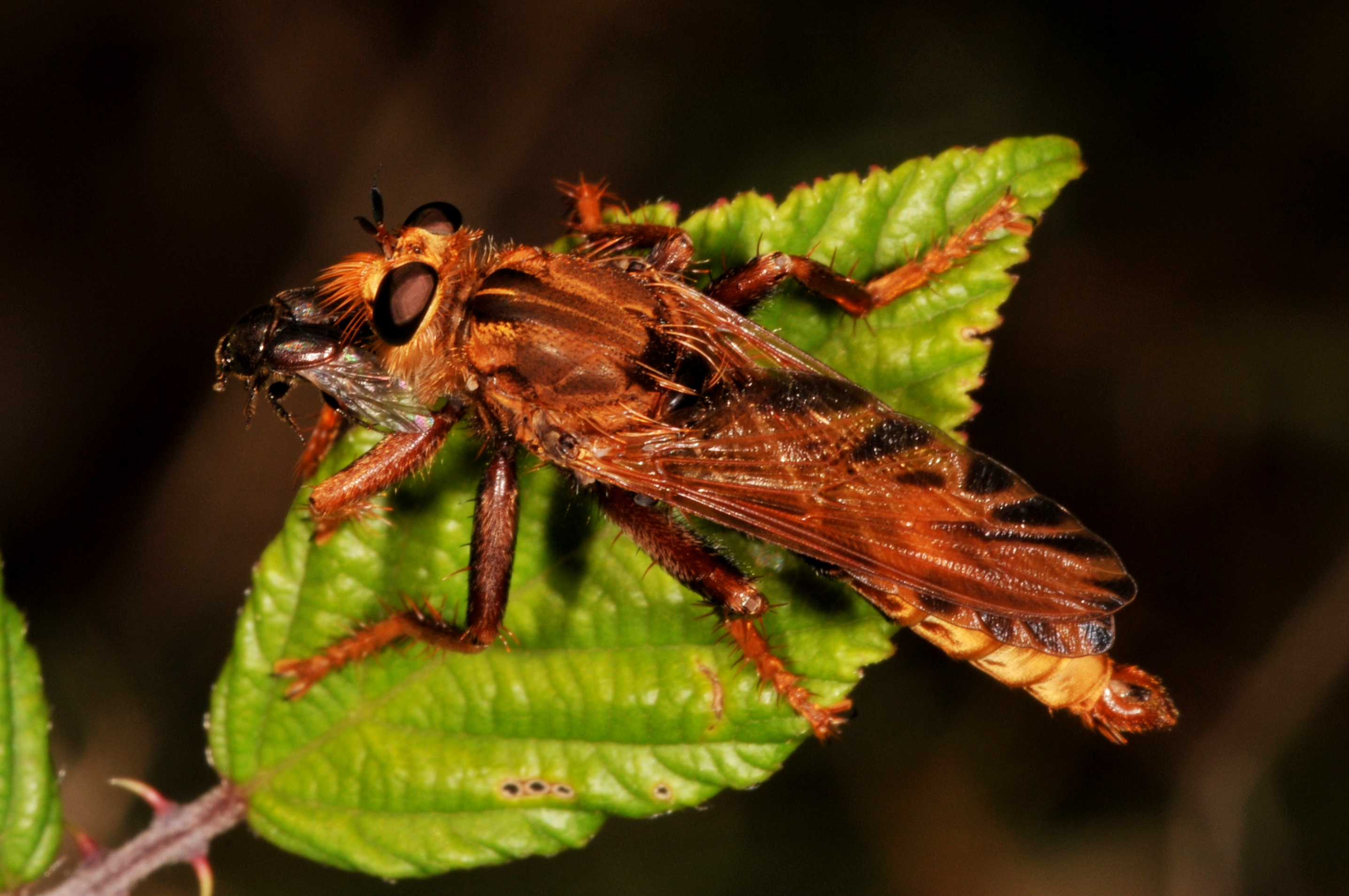 Asilus crabroniformis, Croatia, Istria, Brseč 15 km south Lovran, 45°10`23,80``N 14°13`37,25``E